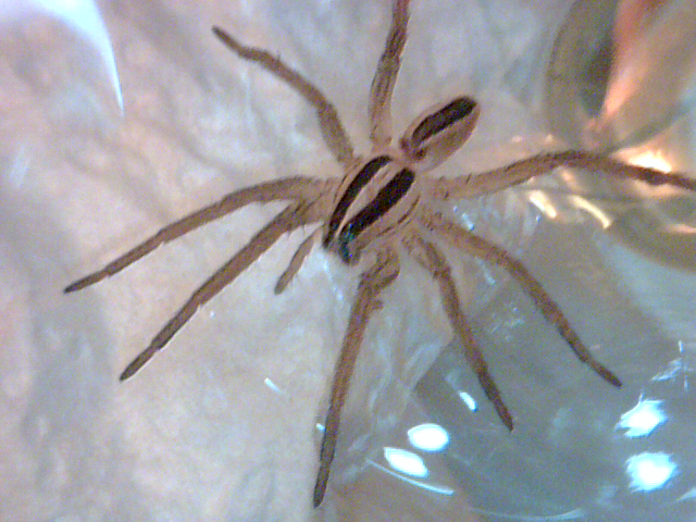 Hogna punctulata (a species of wolf spider), female, 19 mm, photographed at 36° N 80° W.